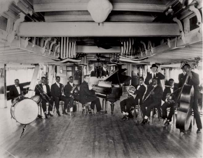 Fate Marable's New Orleans Band on the S. S. Sidney, 1918 or 1919. Left to right: Warren "Baby" Dodds, drums; William "Baba" Ridgley, trombone; Joe Howard, Louis Armstrong, cornets; Fate Marable, piano; David Jones, French horn; Johnny Dodds, clarinet; Johnny St. Cyr, banjo; Pops Foster, string bass. White man standing behind Johnny Dodds may be Mr Streckfus.